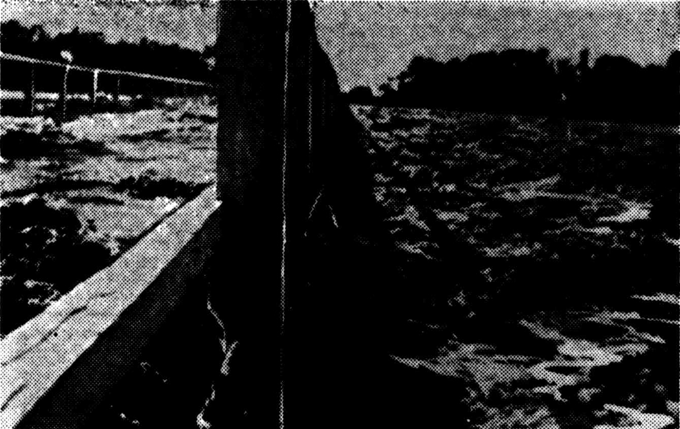 The Gascoyne River at Carnarvon when the flood waters had reached their height. In this picture the river is seen rushing over the bridge.